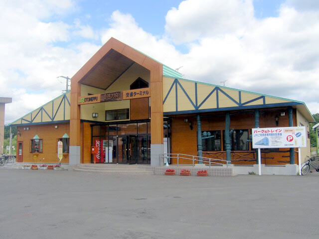 Otoineppu Station in Sōya Main Line, Japan